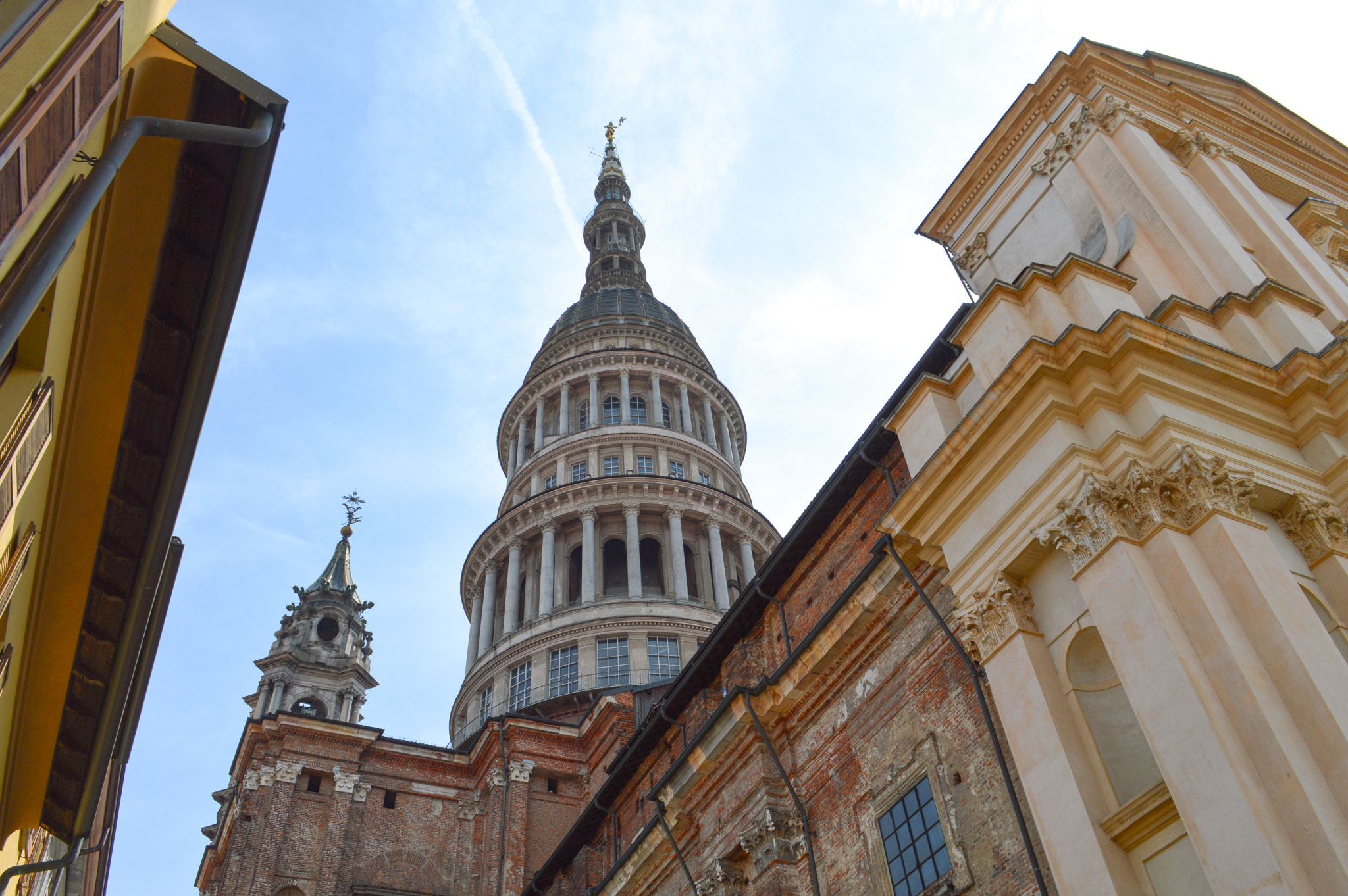 500px provided description: Great Dome [#europe ,#italy ,#architecture ,#town ,#italia ,#historic ,#Novara]